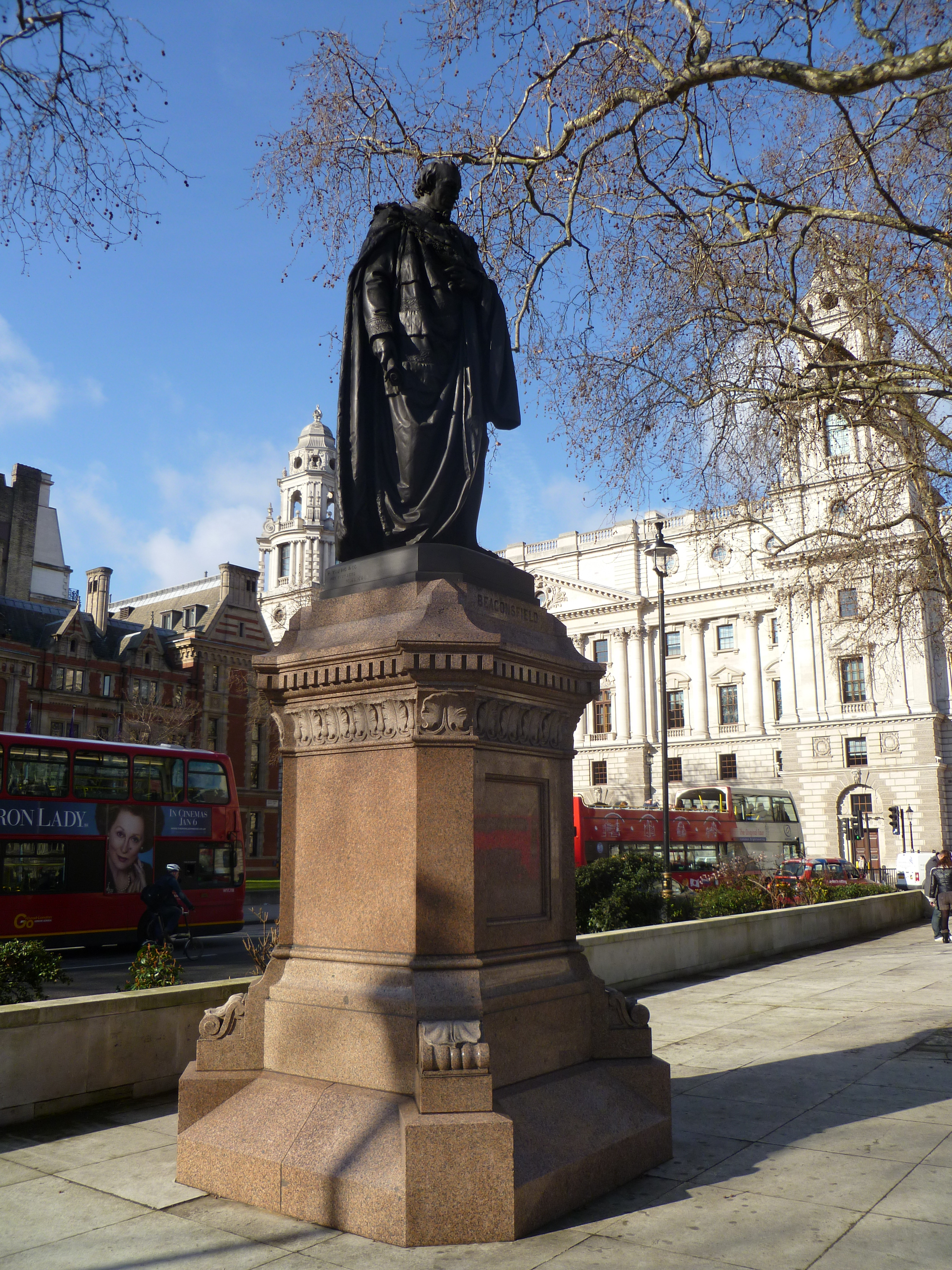 Parliament Square monument to Benjamin Disraeli, Earl of Beaconsfield.